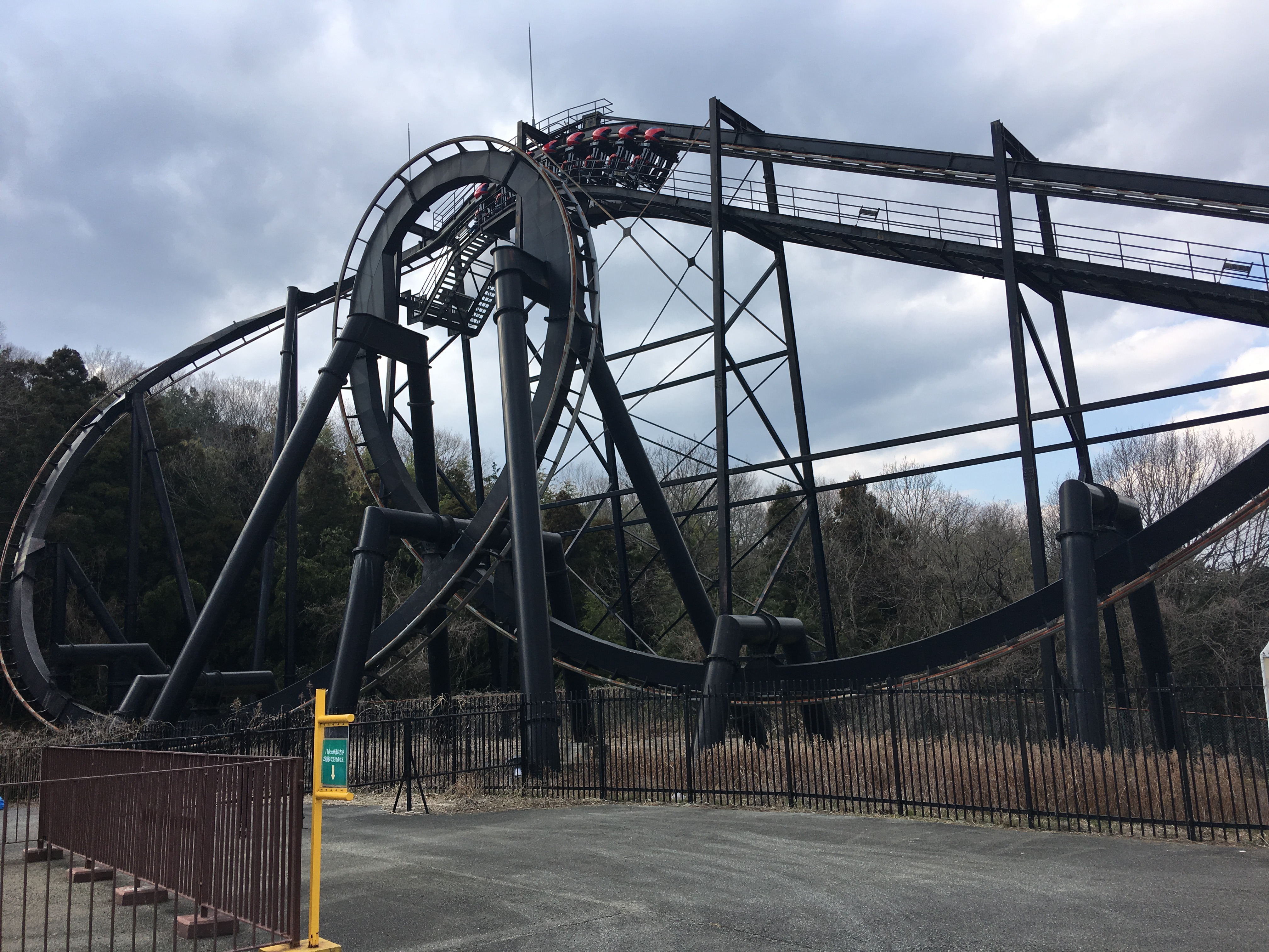 Himeji Central Park